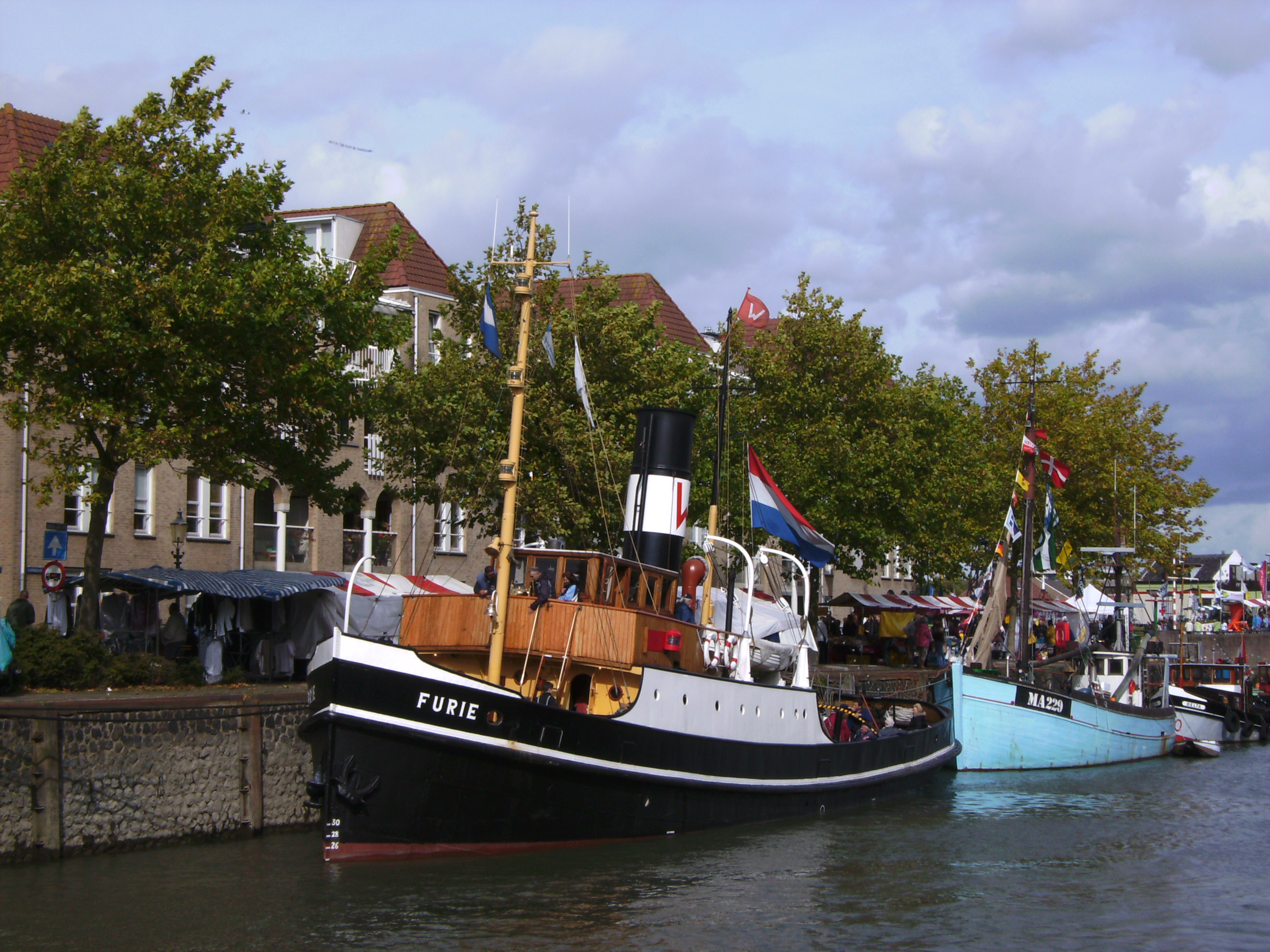 Maassluis, the Furie